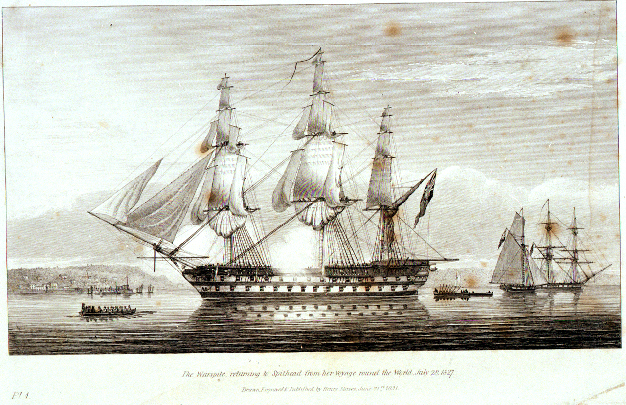 The Warspite returning to Spithead from her voyage round the World, July 28 1827 Technique includes etching.; Plate 1.